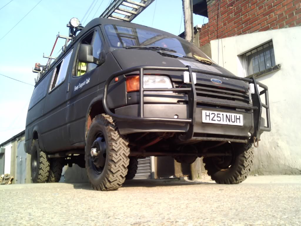 1991 Ford Transit County 4x4